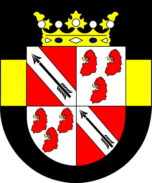 Coat of arms (shield only) of Alois Joseph Schrenk von Nötzig, archbishop of Prague (1838 - 1849).